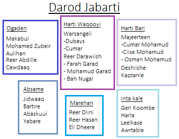 darod jabarti